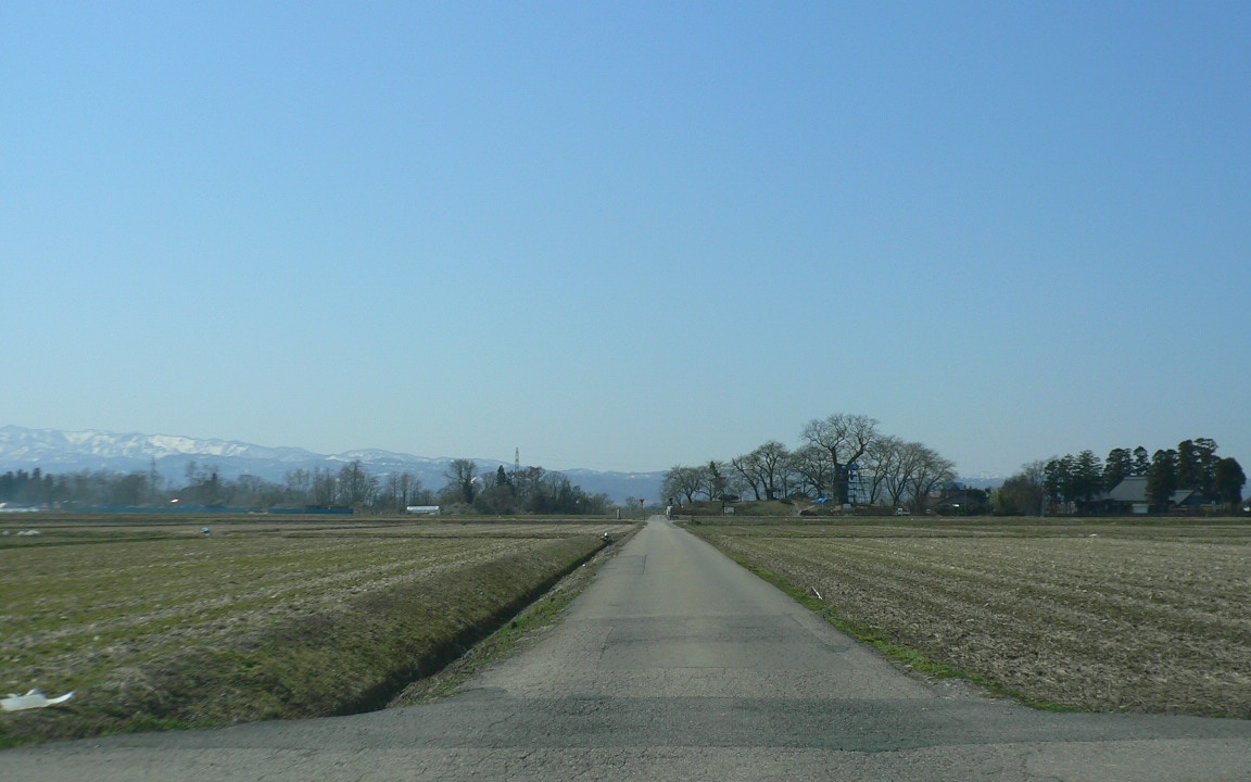 Kouzashi castle site (Aizuwakamatsu, Fukushima ,Japan)